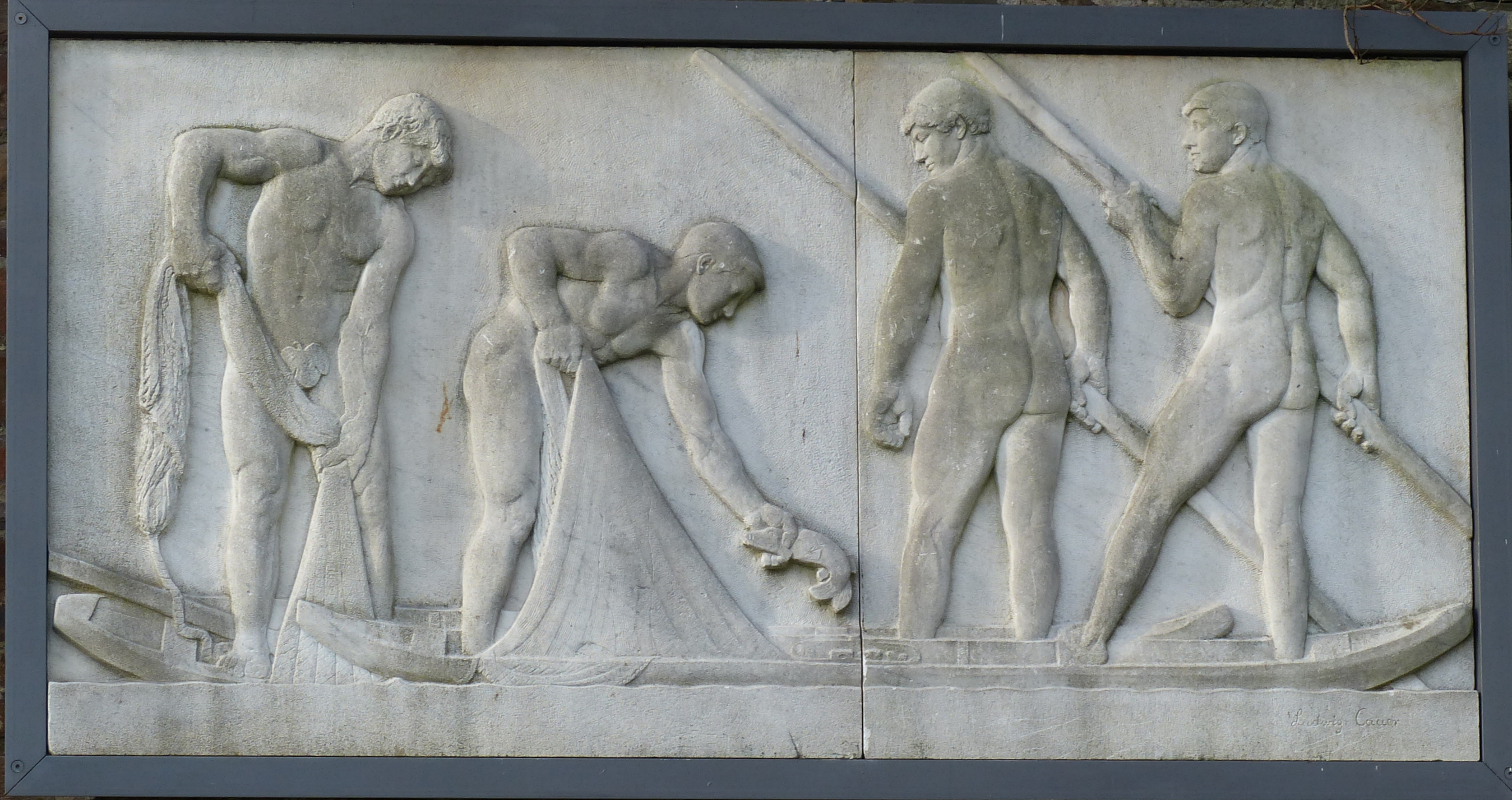 Ludwig Cauerː Fischerrelief, signature. Rheinanlagen in Koblenz